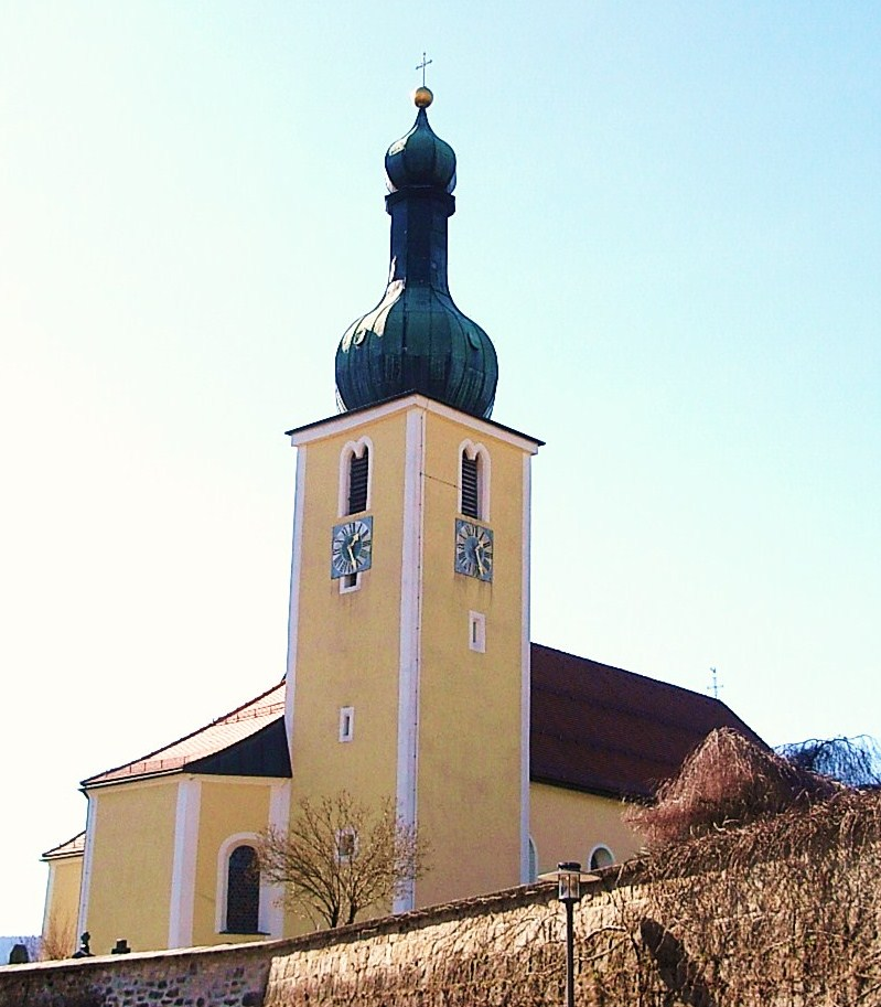 Arnbruck, St Bartholomew Parish Church from north-east.